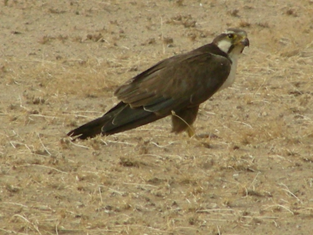 Laggar Falcon (Falco jugger) feeding on Spiny-tailed Lizard (Uromastyx hardwickii) in Jaisalmer district, Thar desert, Rajasthan. Photographed on 05 Jun 06 at 0830hrs or thereabouts. Self-work. AshLin 05:35, 6 June 2006 (UTC)